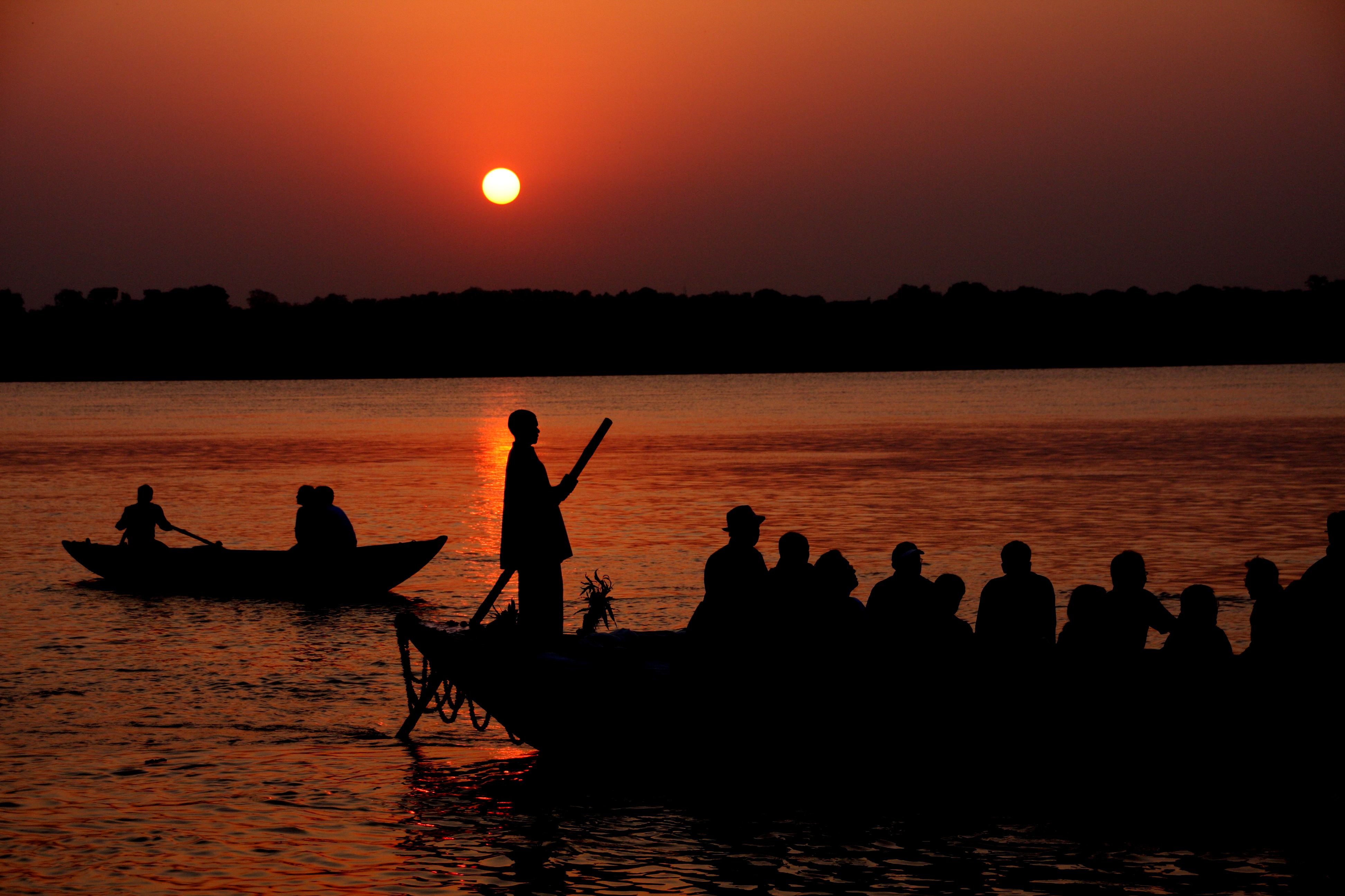 Boat ride at Sunrise, on the Ganges, Varanasi.